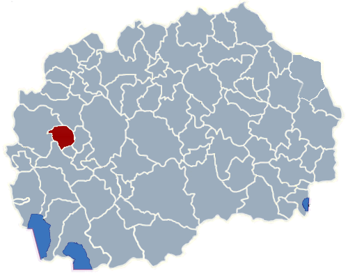 Category:Administrative units of the Republic of Macedonia ÐžÐ¿Ð¸Ñ Map of Zajas municipality.